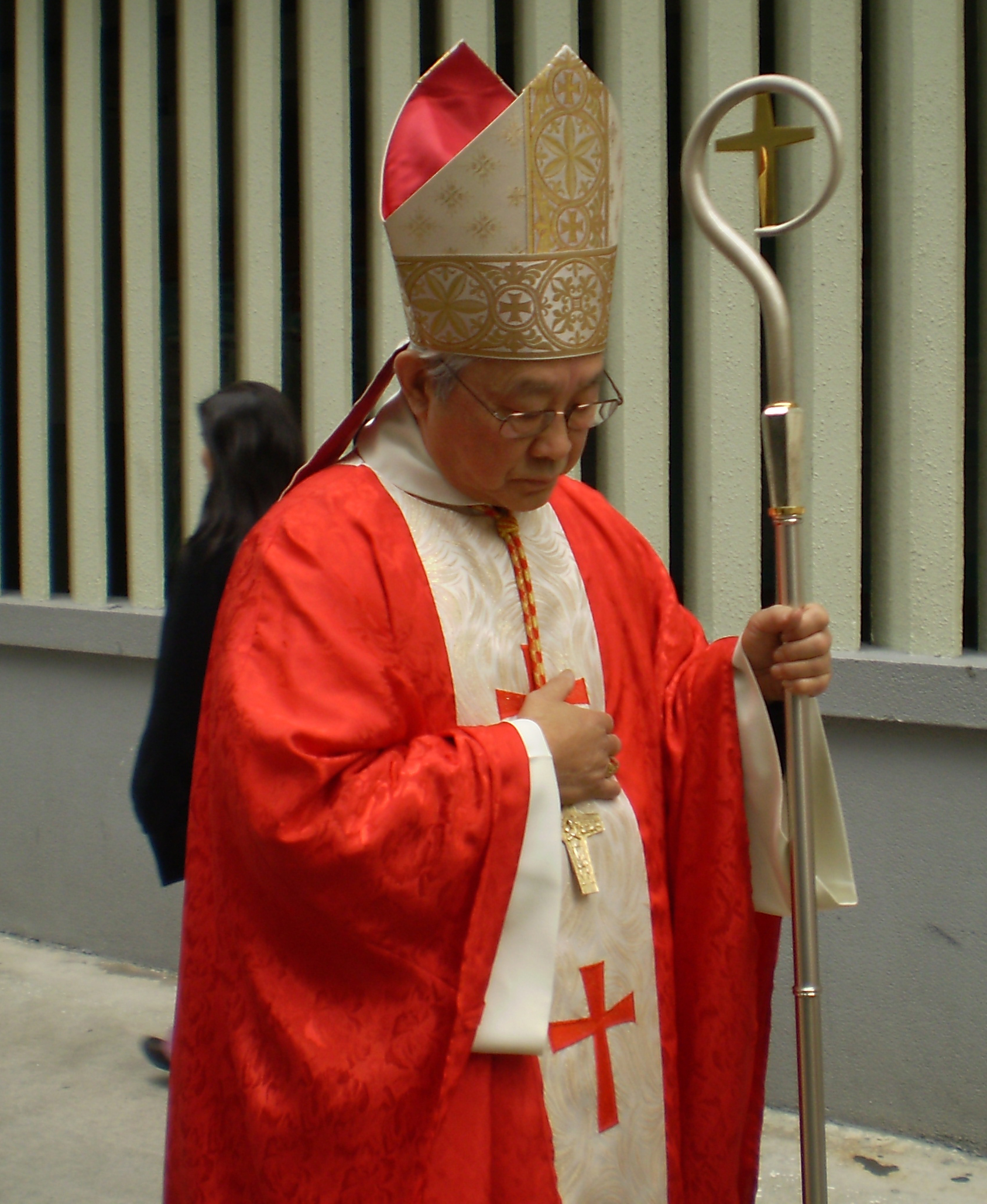 His Eminence Cardinal Joseph Zen Ze-Kiun